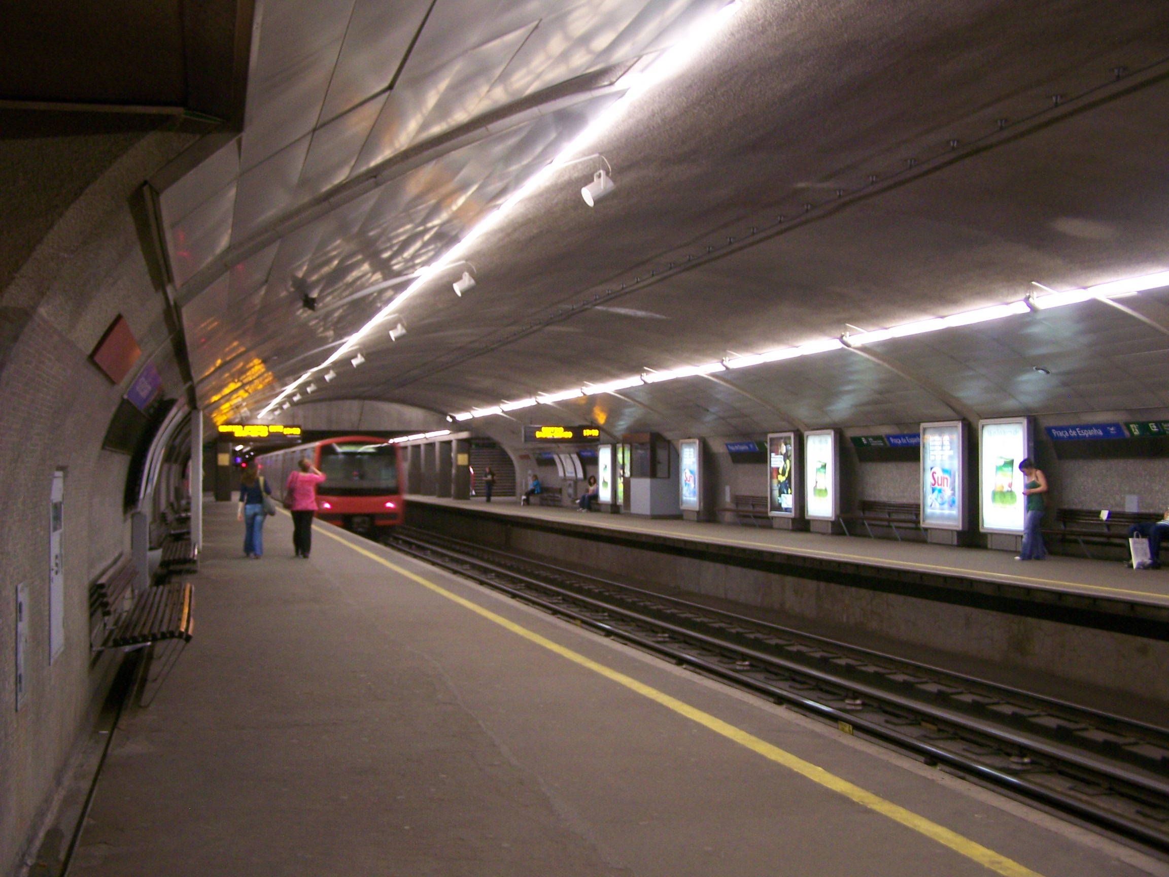 platforms of Lisbon's underground station Praça de Espanha, Lisbon, Portugal